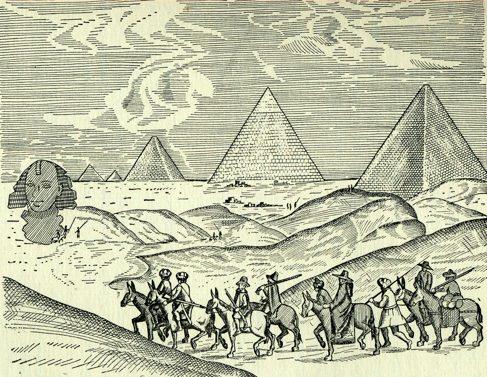 The Great Sphinx of Giza in George Sandys, A relation of a journey begun an dom. 1610 (1615)